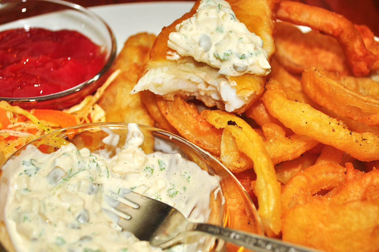 Tartar sauce served with fried food